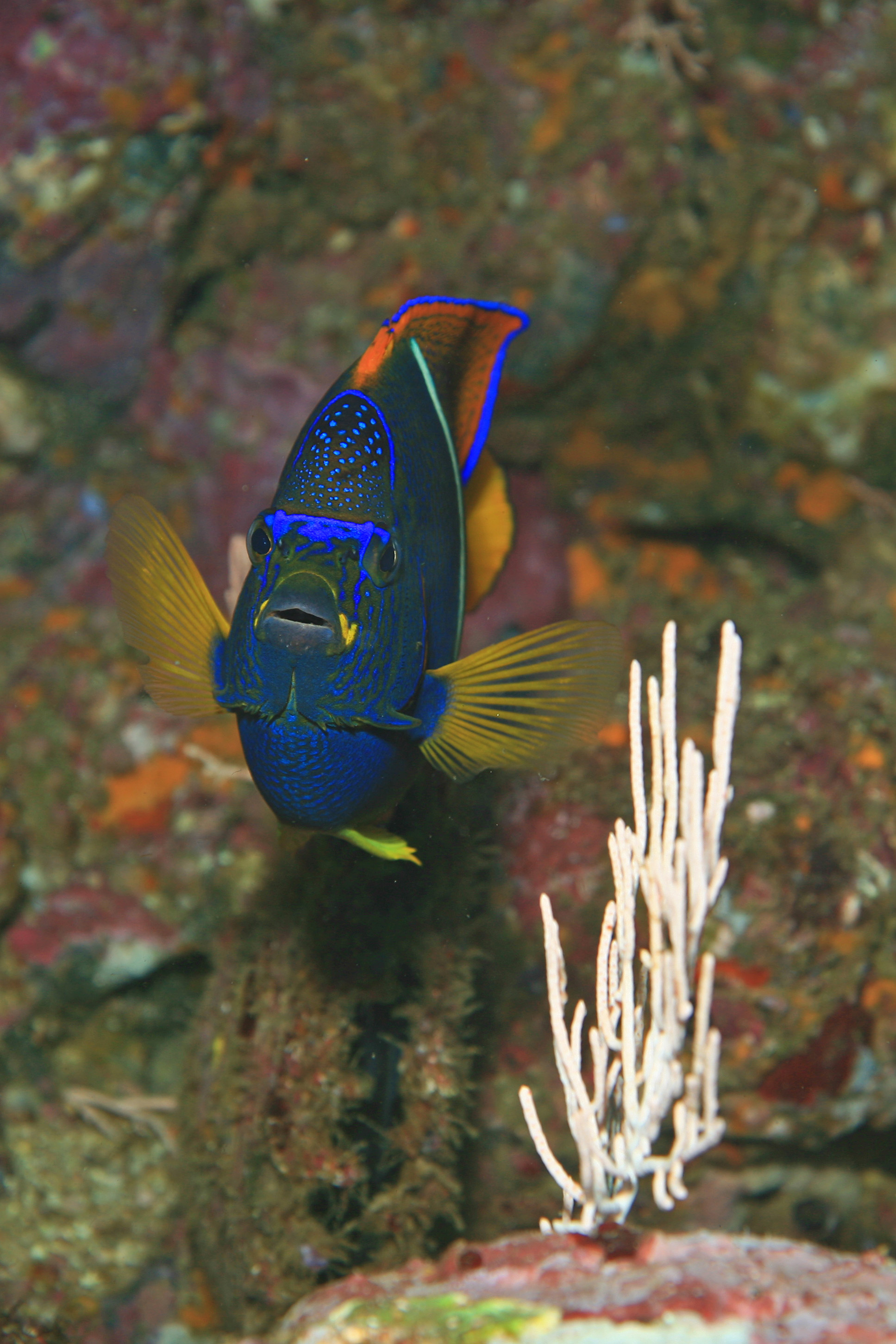 Enough profiles... here is the face... and such a cute face, at that. This is a King (or Passer) Angelfish (Holocanthus passer) mugging for the camera at the "Cotton Hill" dive site, Chiriqui Coast, Panama. Day 2